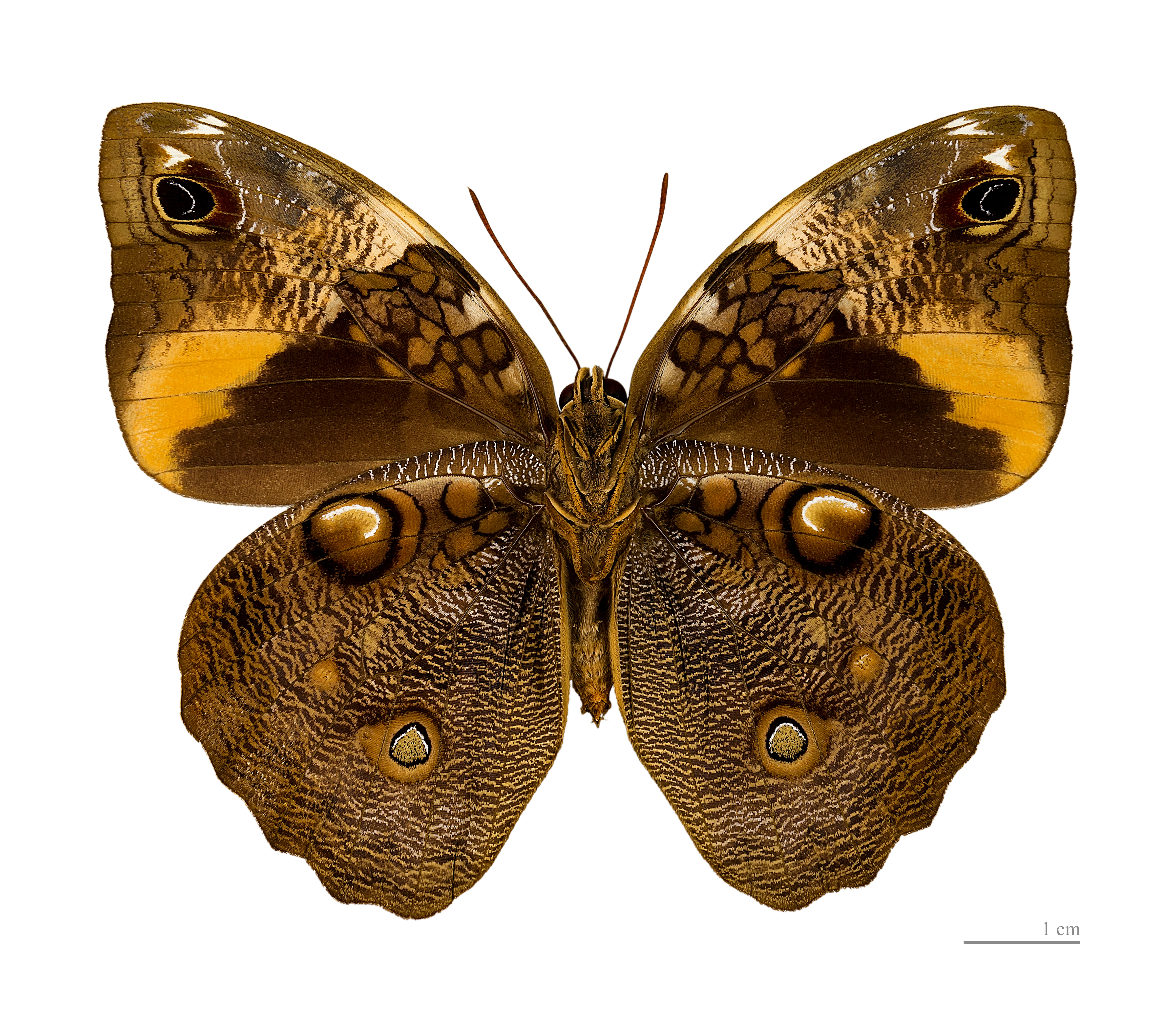 Opsiphanes cassiae - △ Ventral side